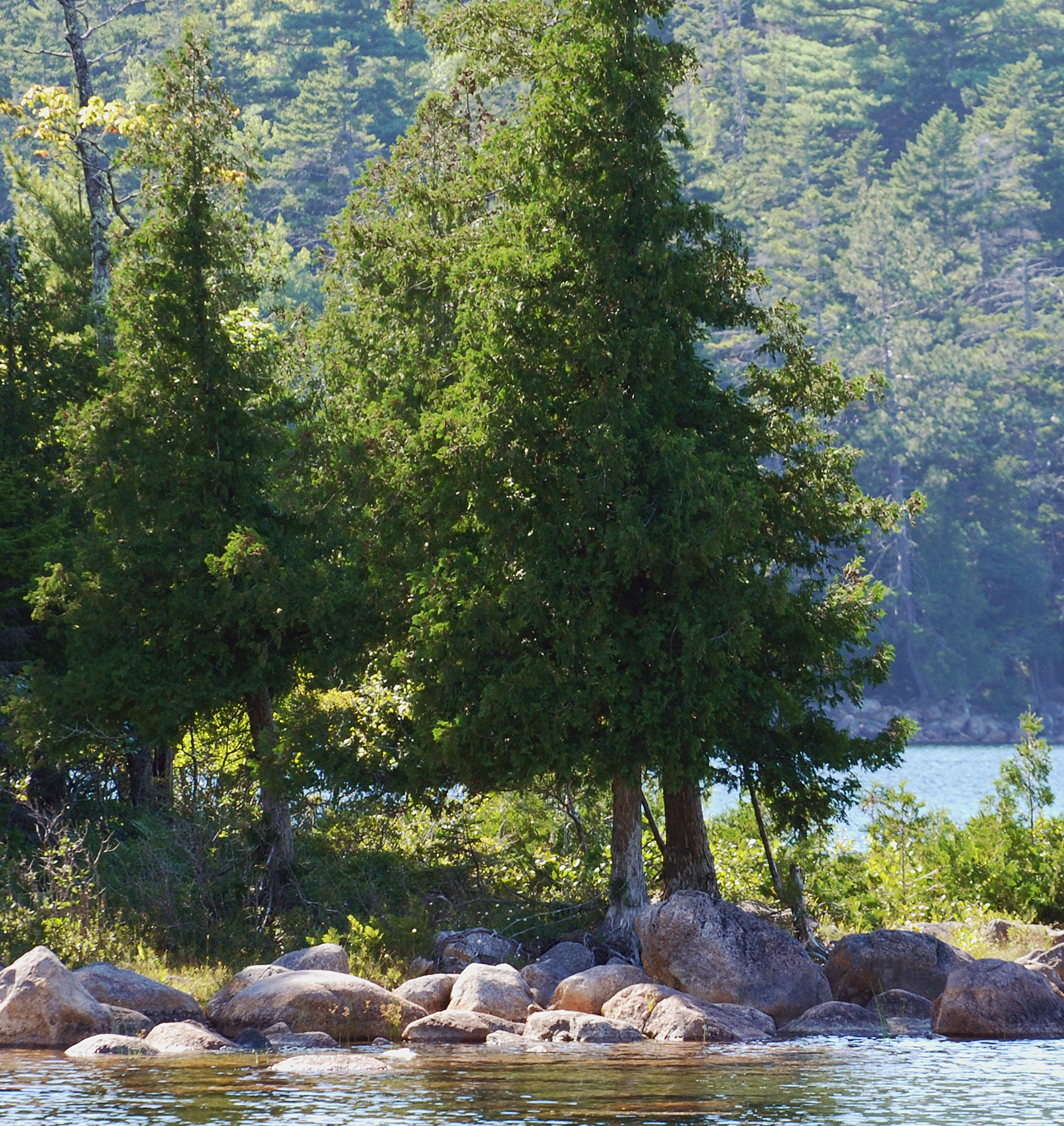 Thuja occidentalis along the Jordon Pond Trail, Maine